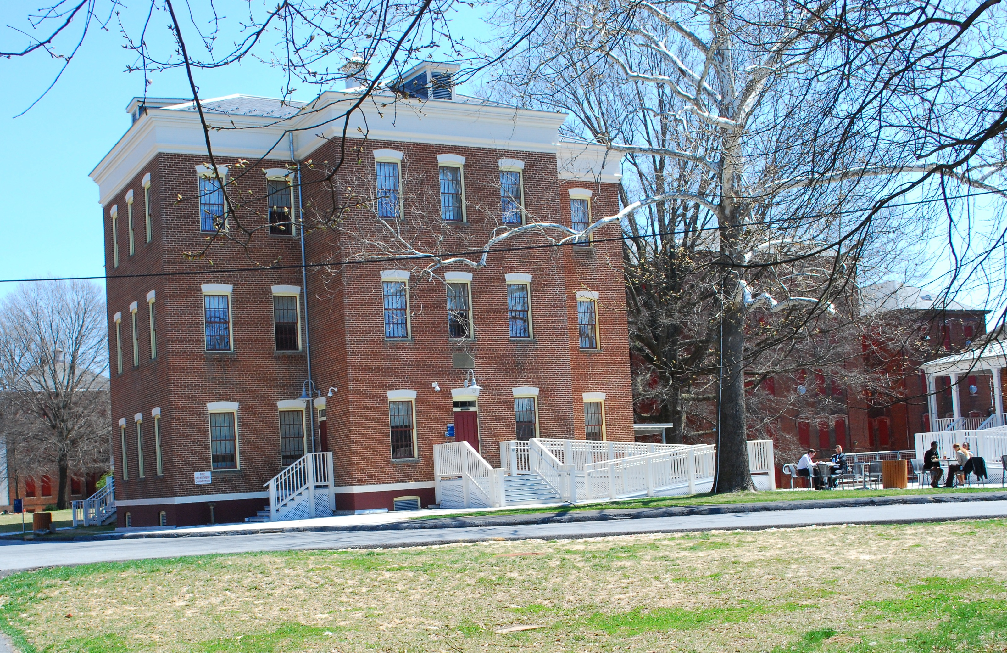 Atkinns Hall